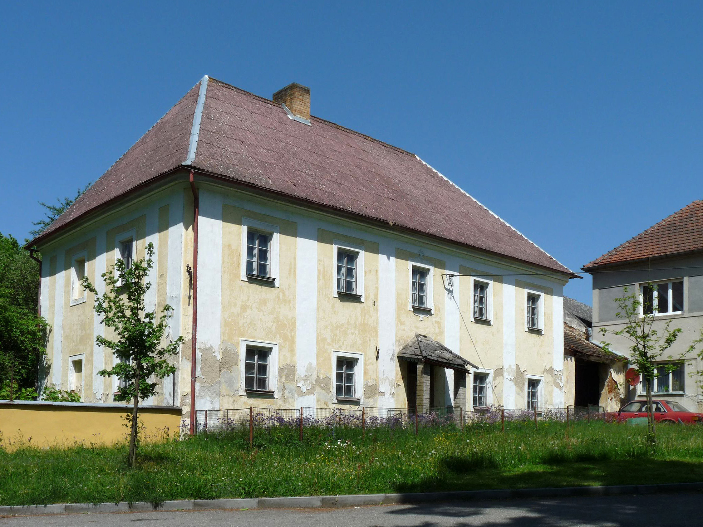 Rectory in the municipality of Budislav, Tábor District, South Bohemian Region, Czech Republic.